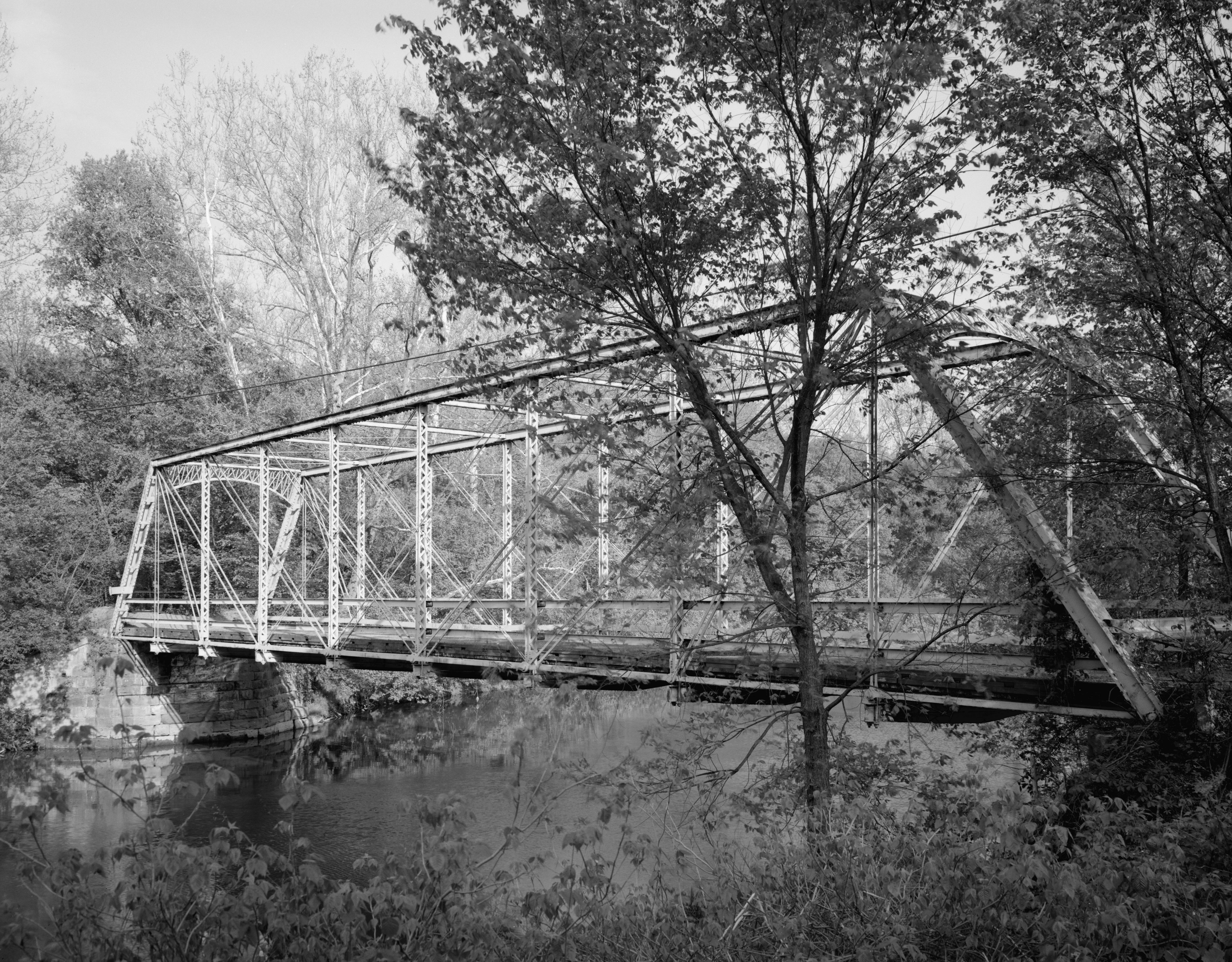 National Register of Historic Places in Ohio. Station Road Bridge, Spanning Cuyahoga River, Brecksville, Cuyahoga County, Ohio, General view of bridge, looking southeast. Created/Published: Documentation compiled after 1968. Notes: Survey number HAER OH-67-2. Building/structure dates: 1882 initial construction.